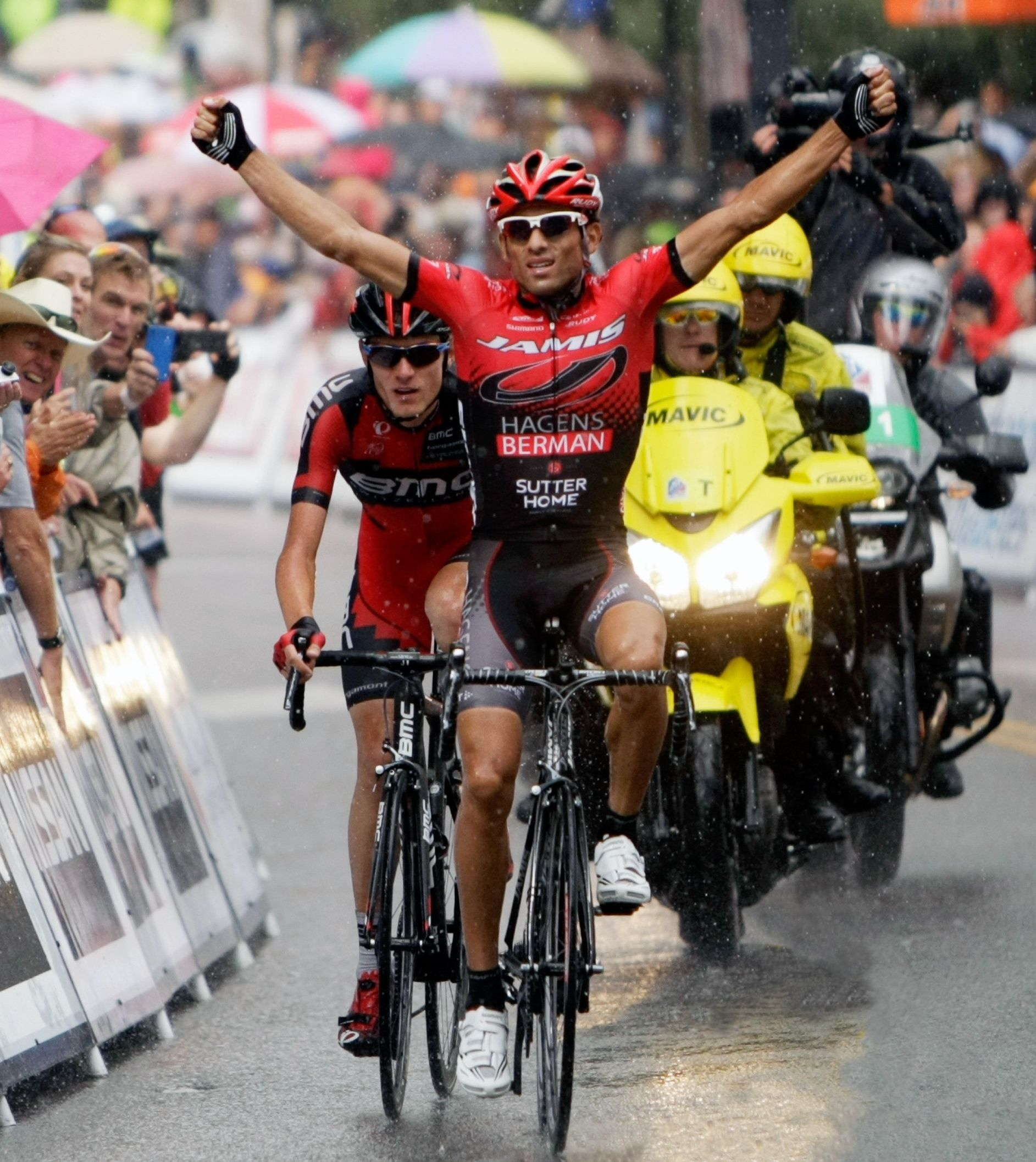 Janier Acevedo wins stage 4 of the USA Pro Cycling Challenge 2013. Second place Tejay Van Garderen